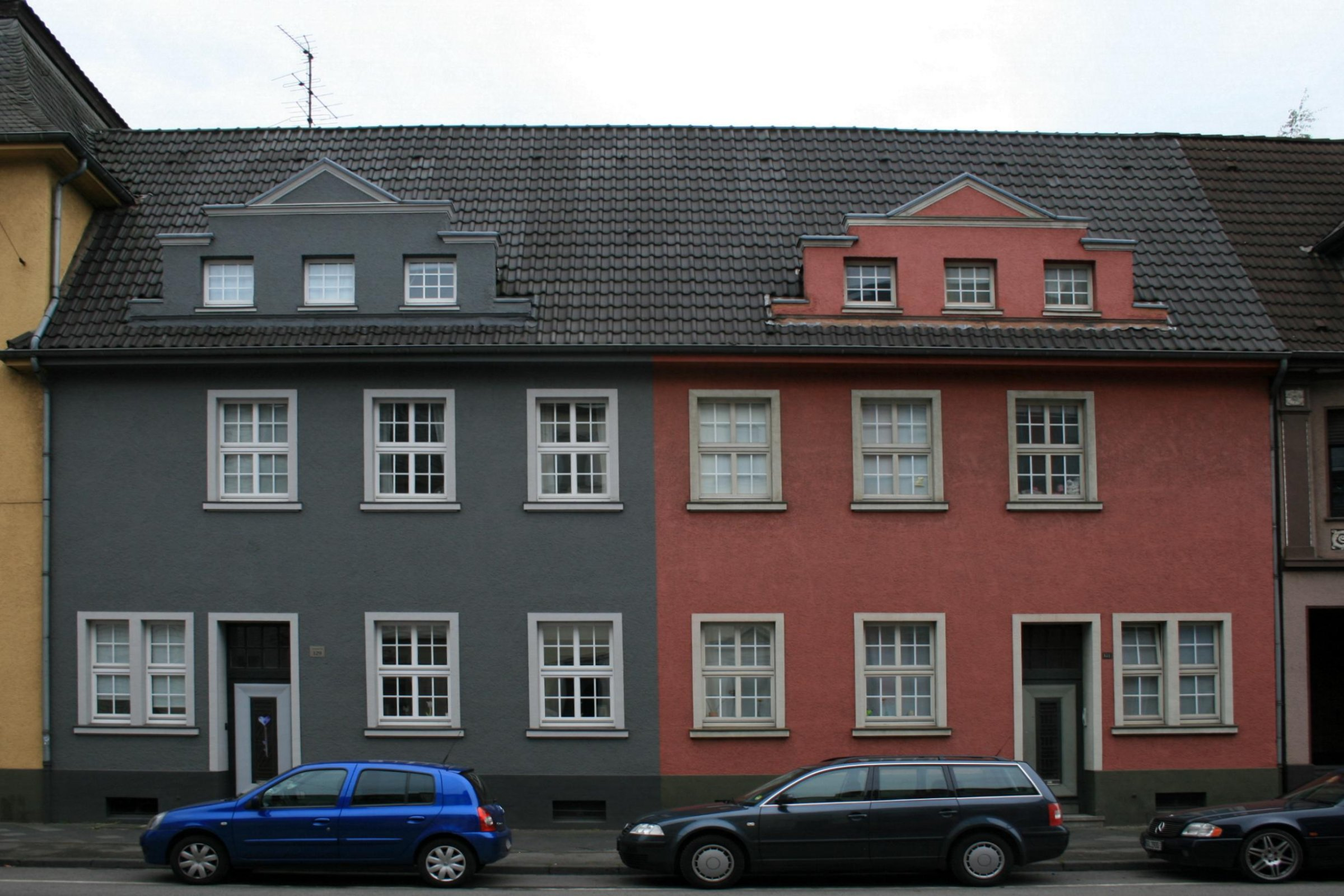 Cultural heritage monument No. V 020 in MönchengladbachThis is a photograph of an architectural monument. 020